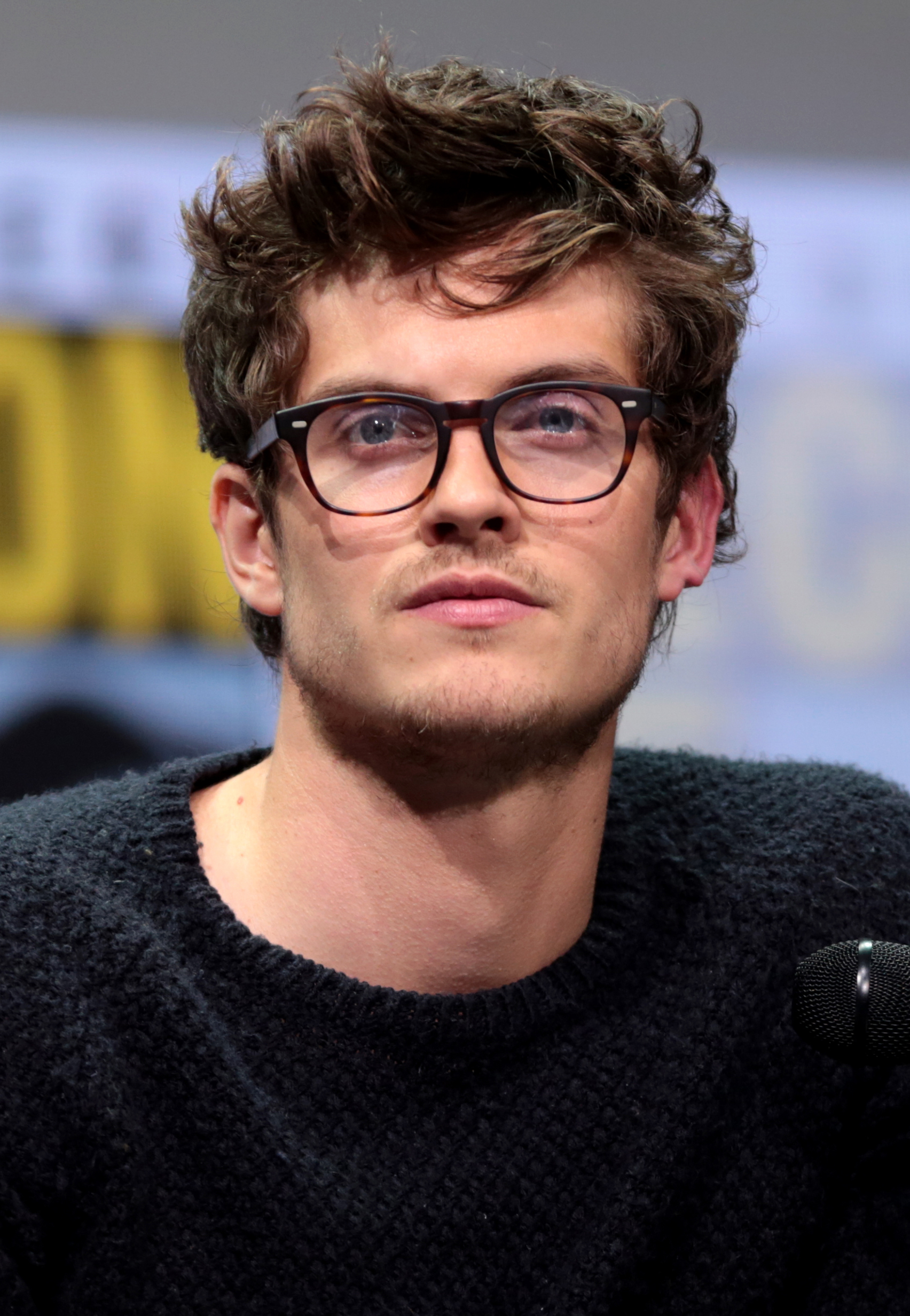 Daniel Sharman speaking at the 2017 San Diego Comic-Con International in San Diego, California.